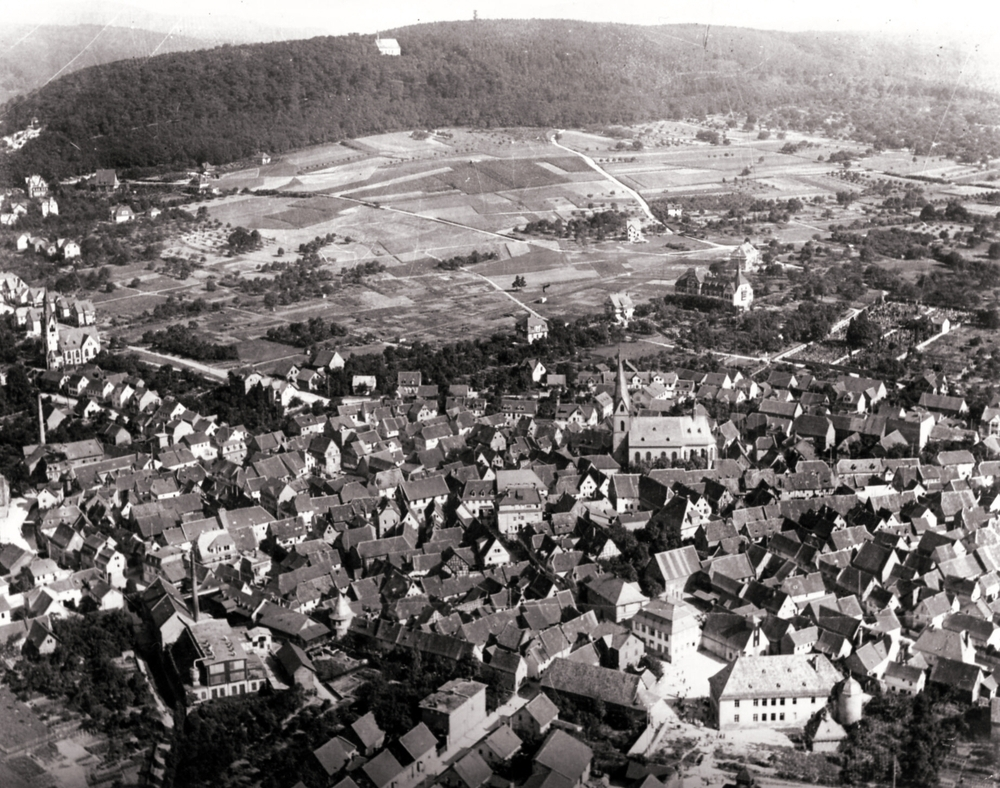 Aerial photograph Hofheim am Taunus, 1914